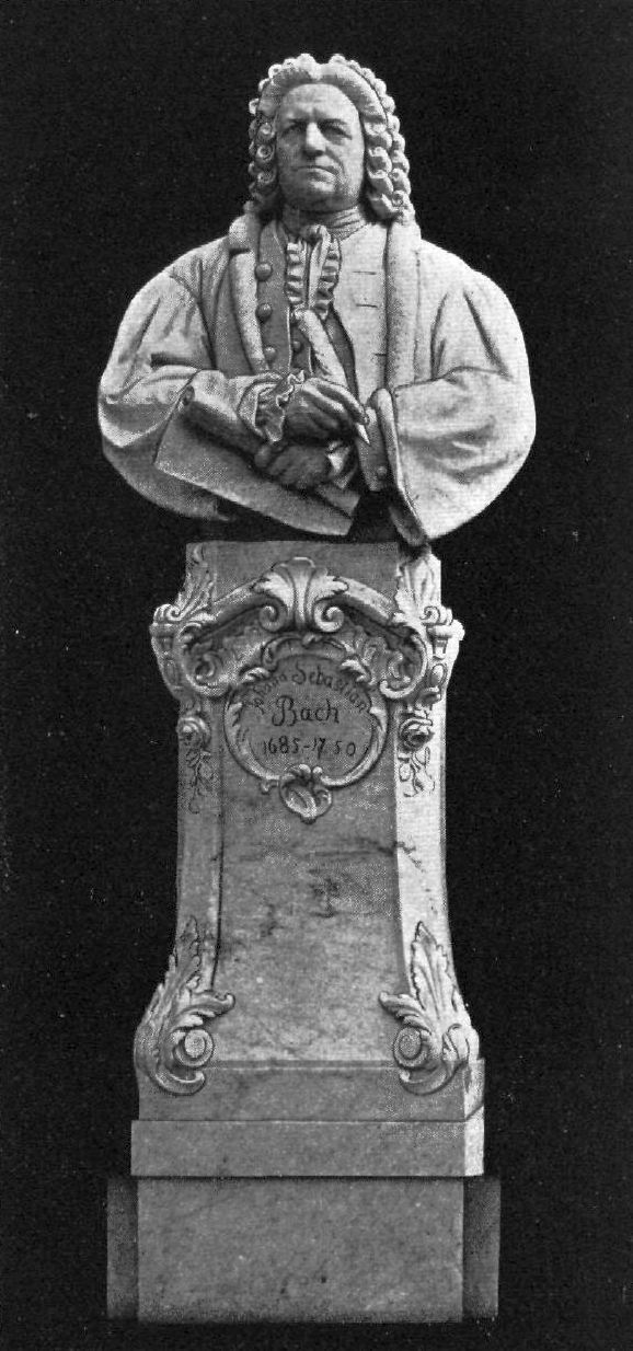 The right sidebust of the monument group No. 28 in the former Siegesallee in Berlin, commemorating Johann Sebastian Bach. Sculptor: Joseph Uphues (1851-1911). The sculpture group was inaugurated on 26 August 1899. The bust is missing.